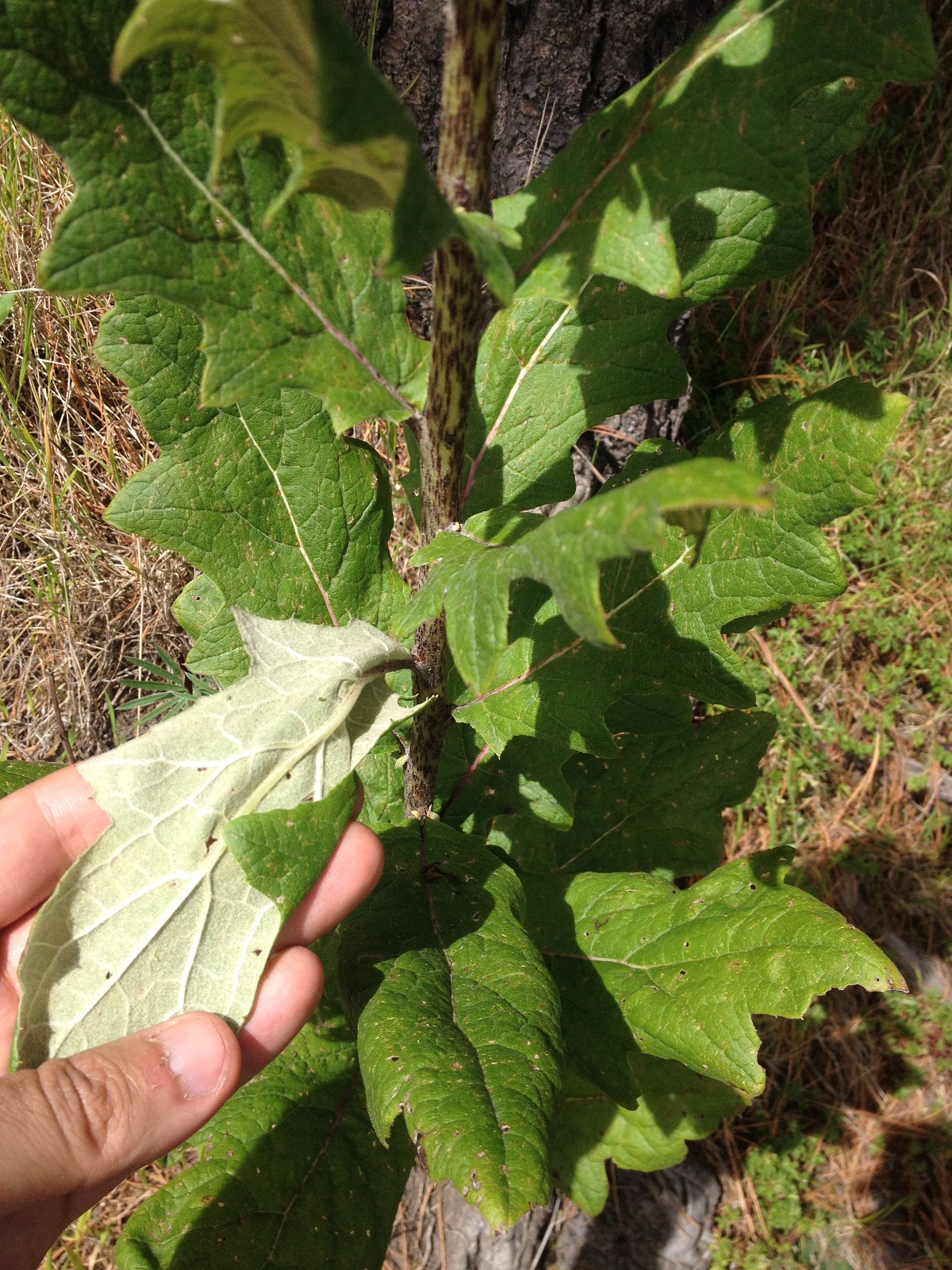 Detail of the leaves of Roldana candicans, a subalpine shrub from the Mexican highlands. Photo taken at cerro Telapón in Ixtapaluca, State of Mexico. This photo has also been posted on iNaturalist